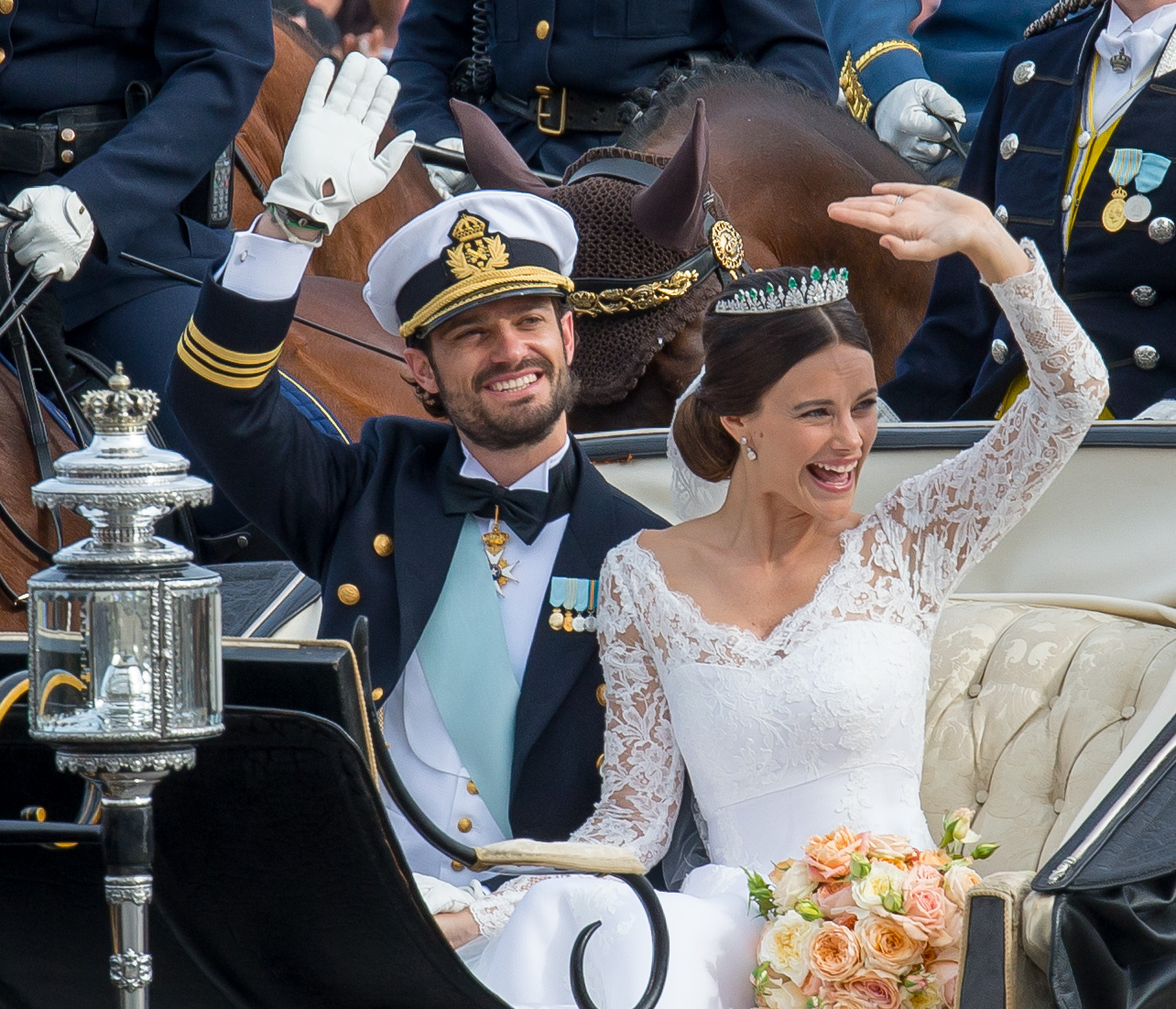 Prince Carl Philip and Princess Sofia after the ceremony in the Royal Chapel and during the procession through central Stockholm. Princess Sofia wears a wedding gown designed by Ida Sjöstedt.